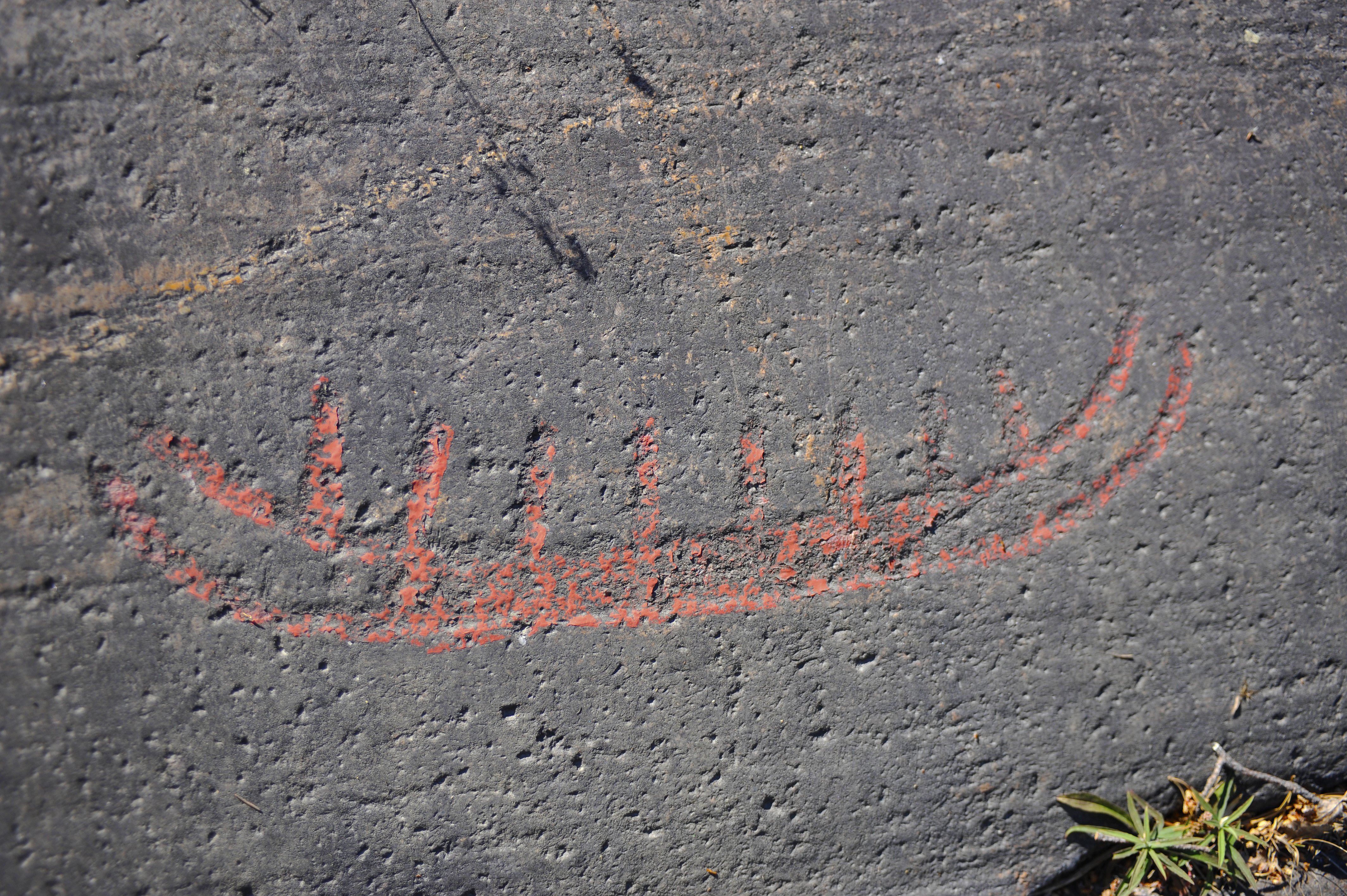 Helleristningsskip